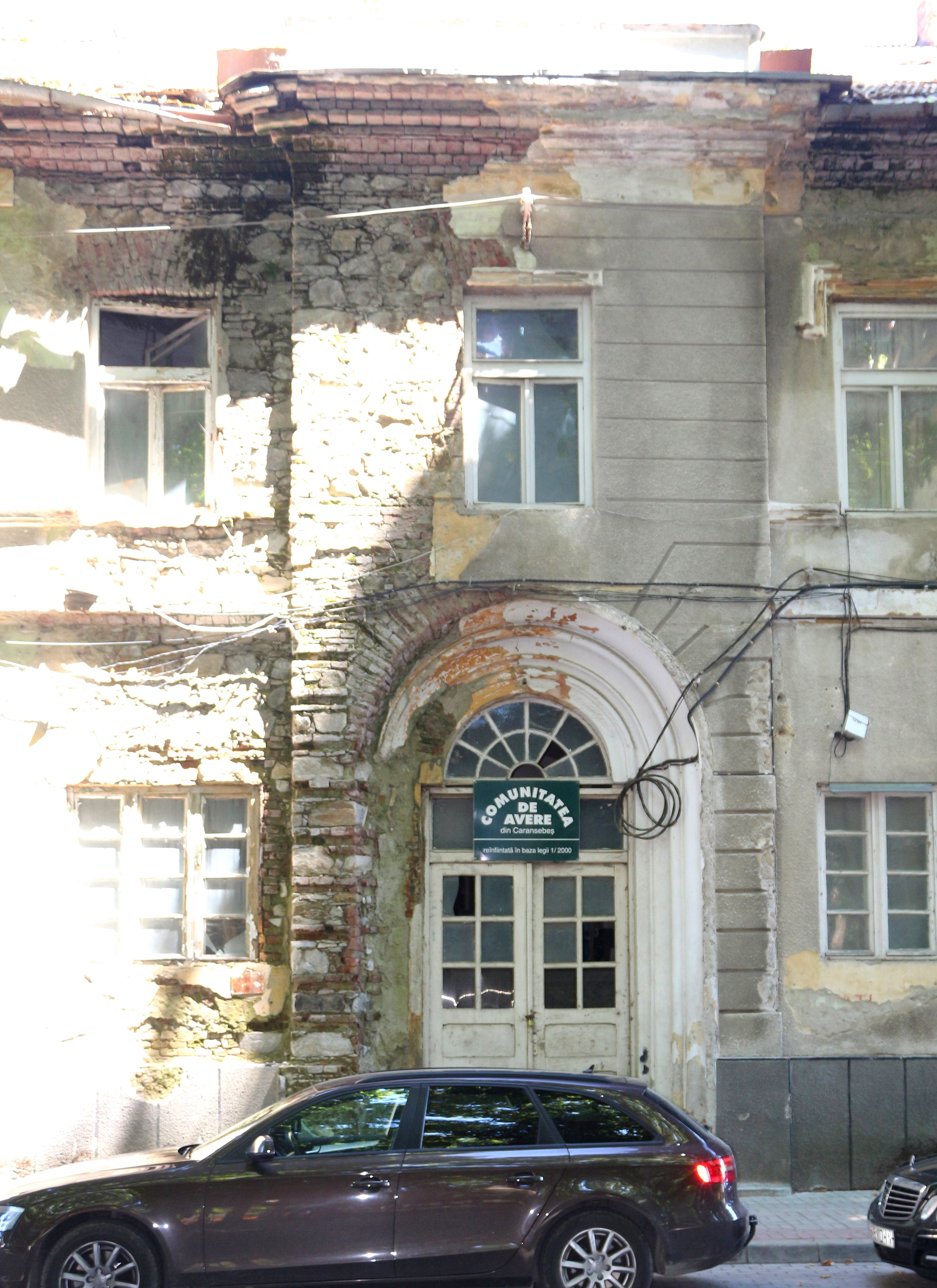 Palace of the Community of Wealth, Episcopiei St. no. 1, Caransebeș, Romania, built 1901